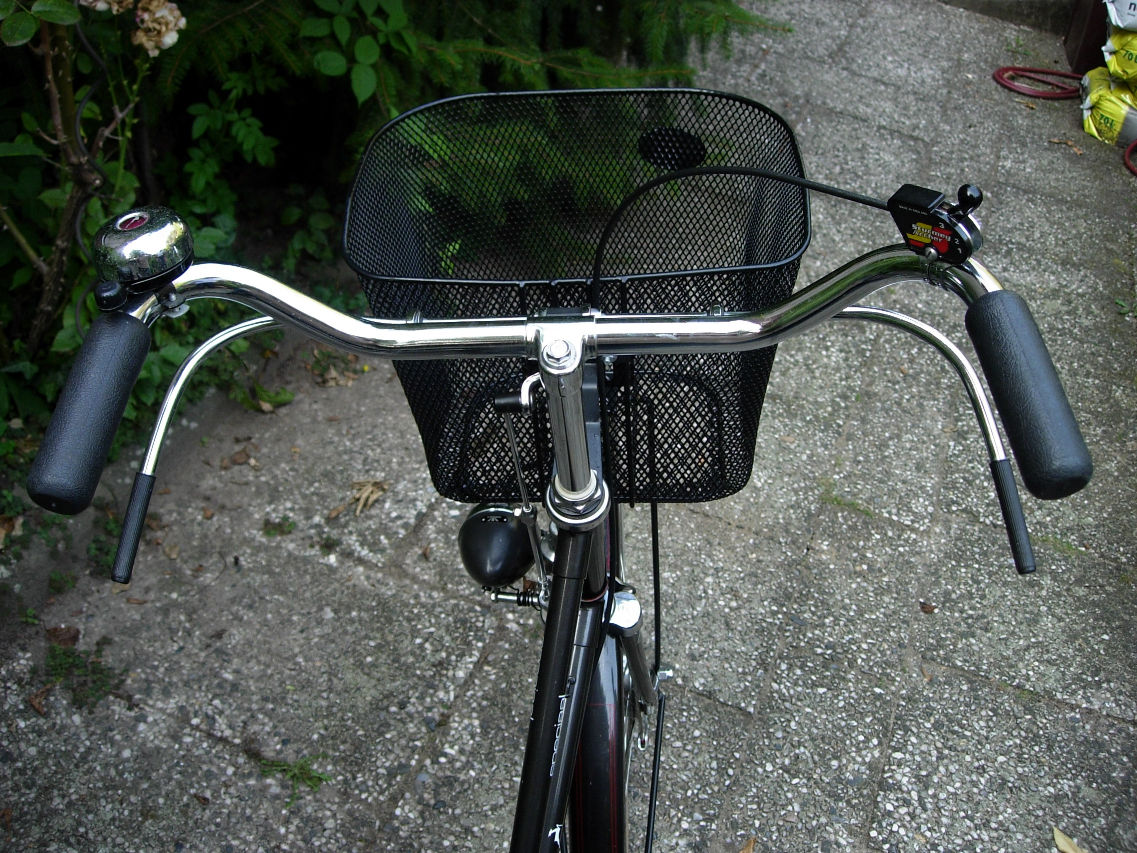 Gazelle Speciaal Exclusive Topklasse dames (1988)